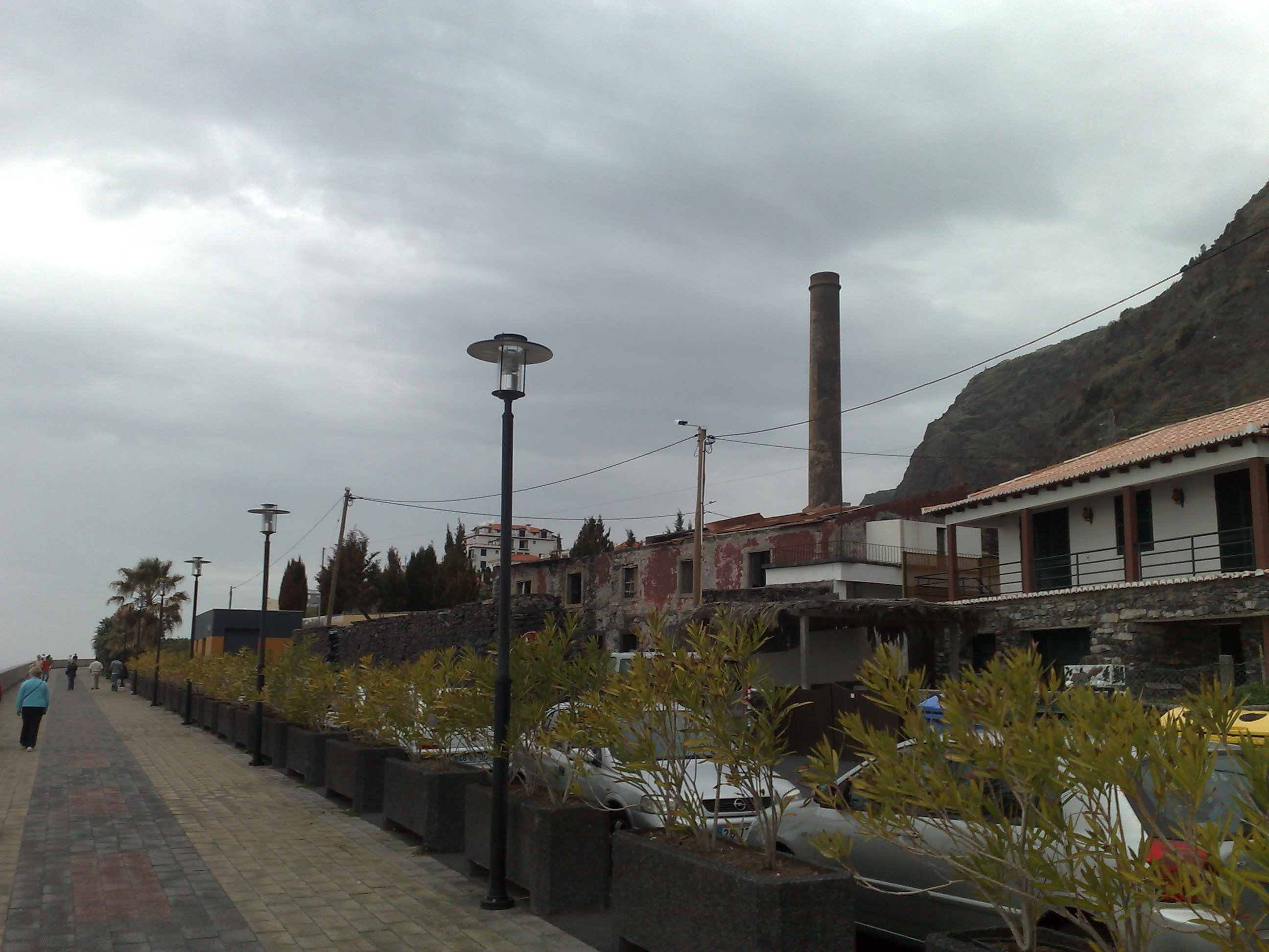 Sugar cane is one of Madeira's staple crops, and in days gone by, the island did most of its own refining. Most of the refineries are now derelict, like this one - it reminds me of the "wheal houses" of the now-closed tin mines in Cornwall.